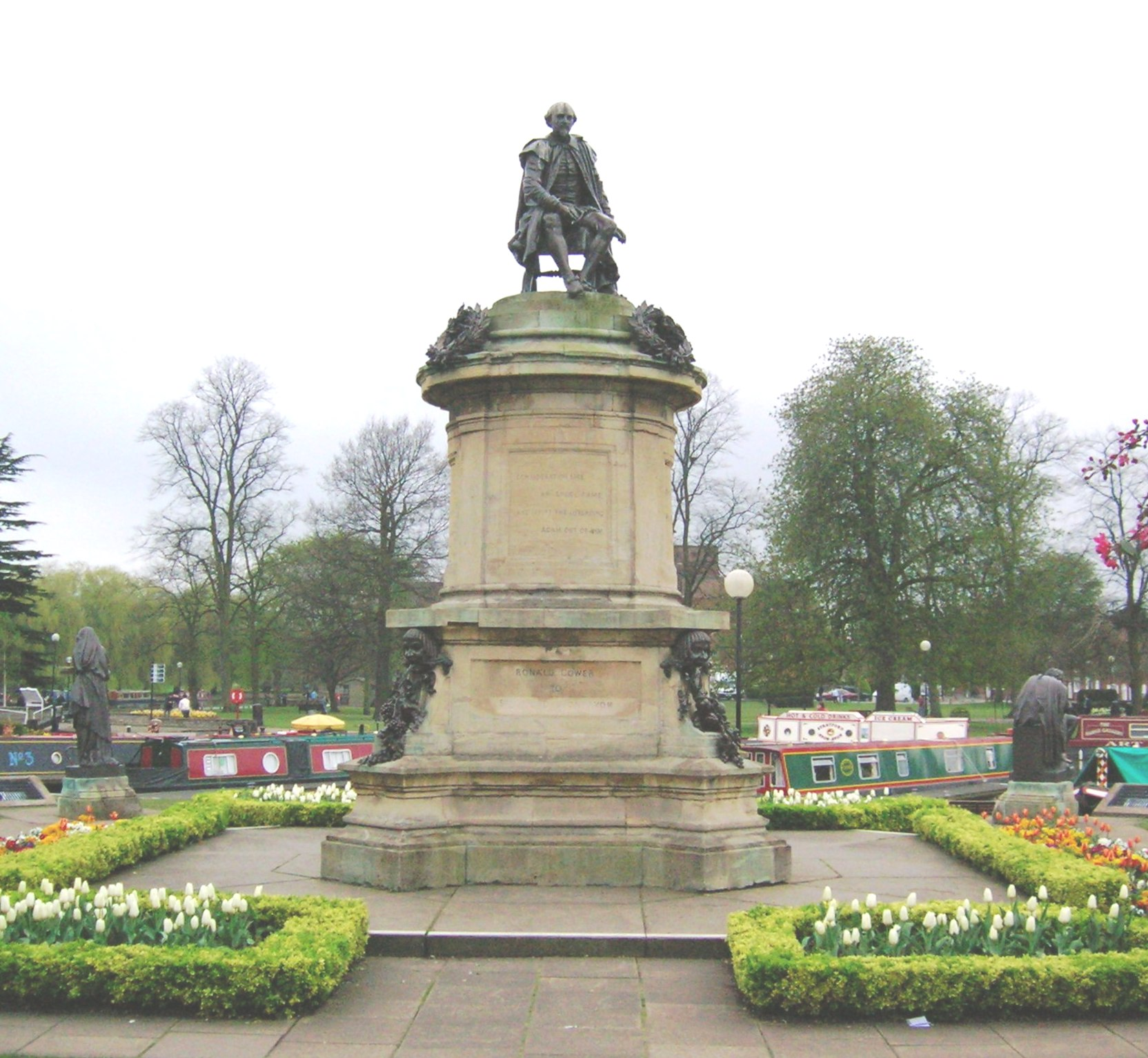 detail of shakespeare monument in Stratford of Avon